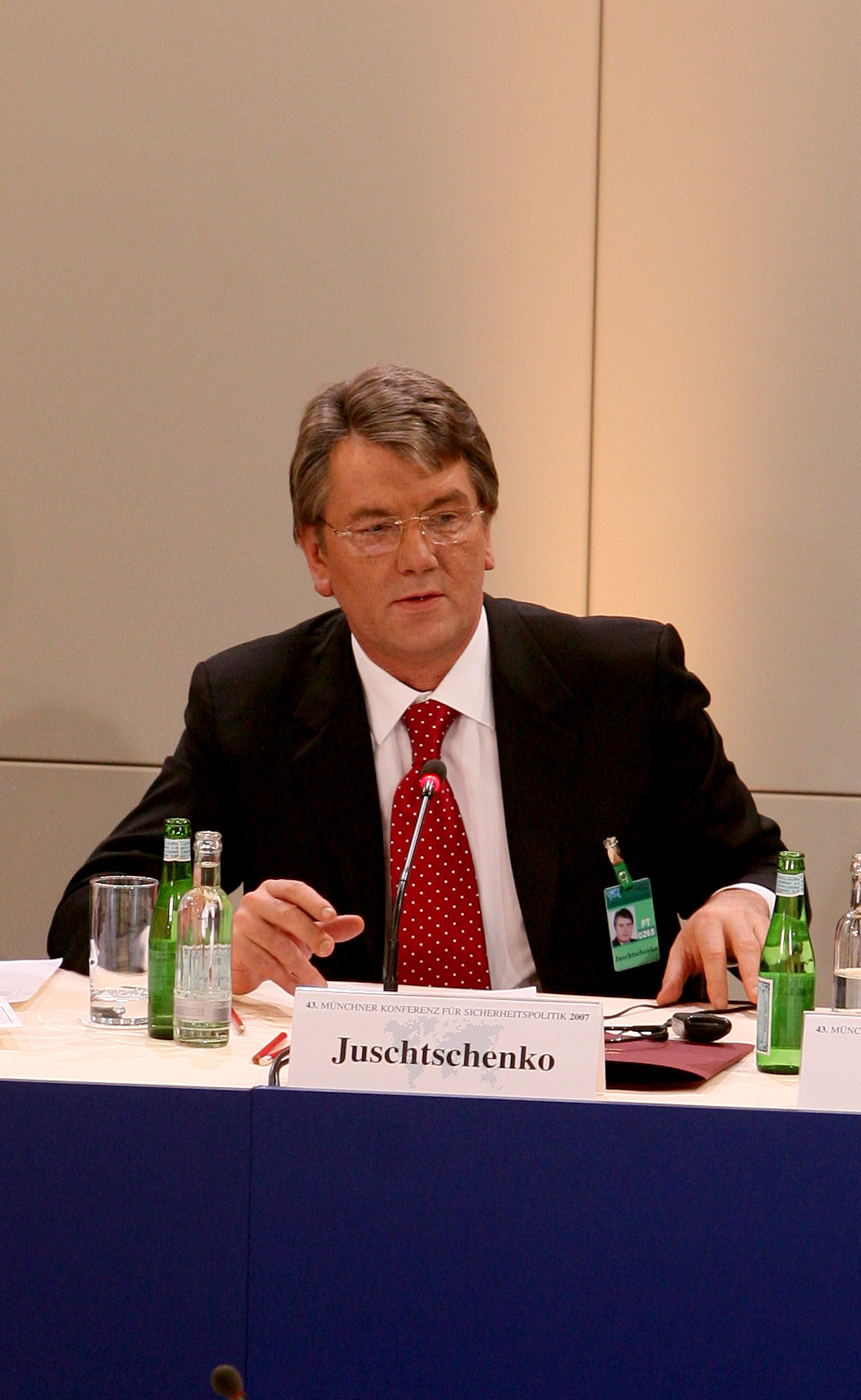 43rd Munich Security Conference 2007: The President of the Ukraine, Victor Juschtschenko during his speech.